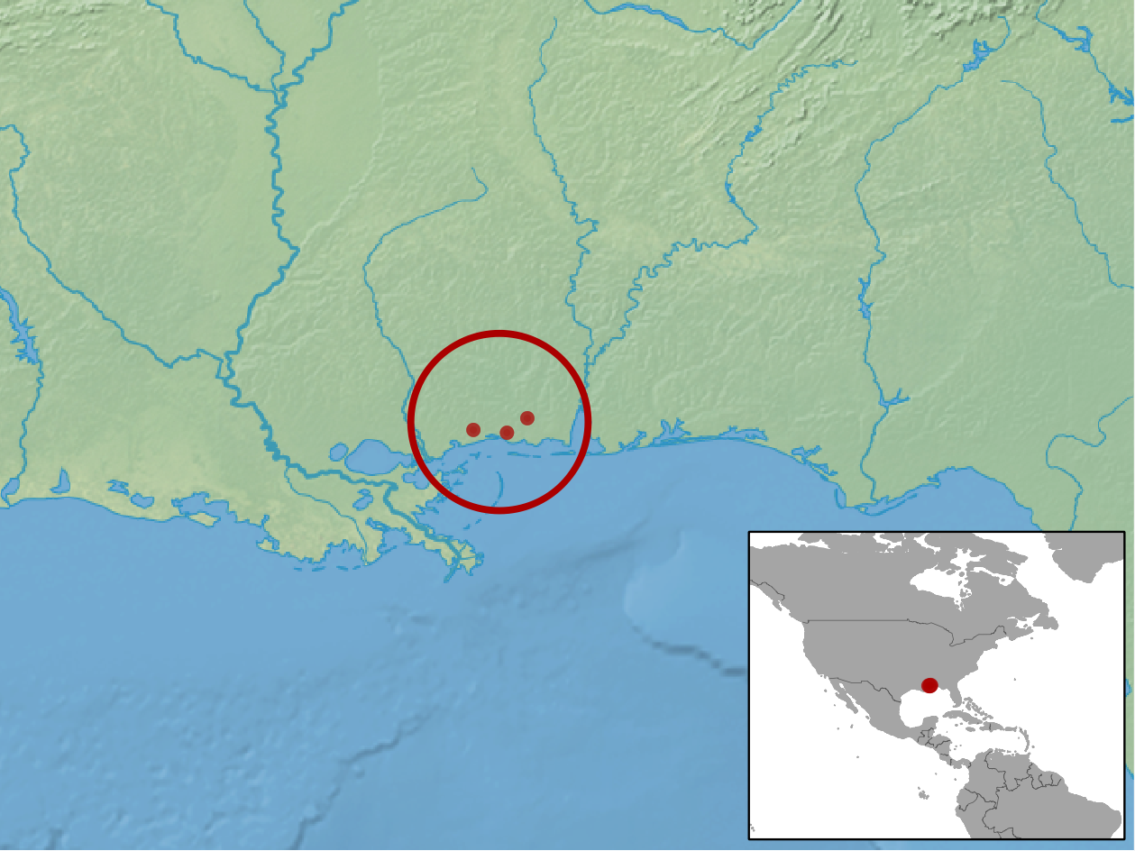 geographic distribution of Lithobates sevosus